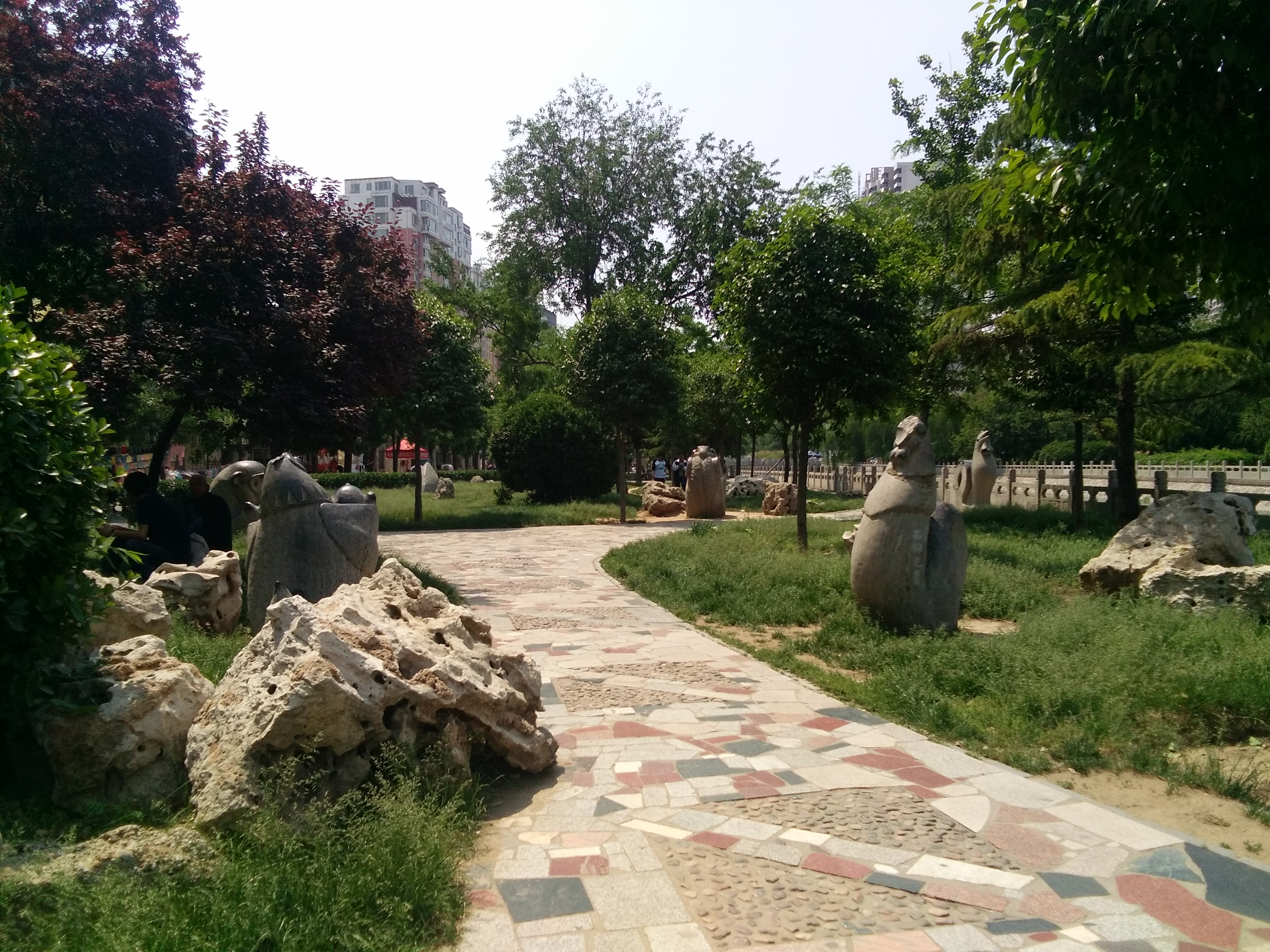 Yequ Garden in Qinhe Park.